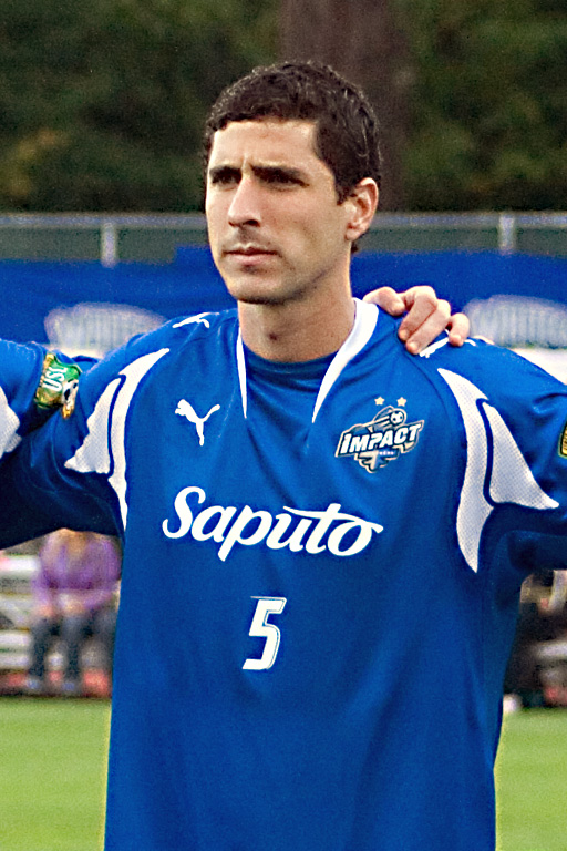 photo of soccer player, Nevio Pizzolito